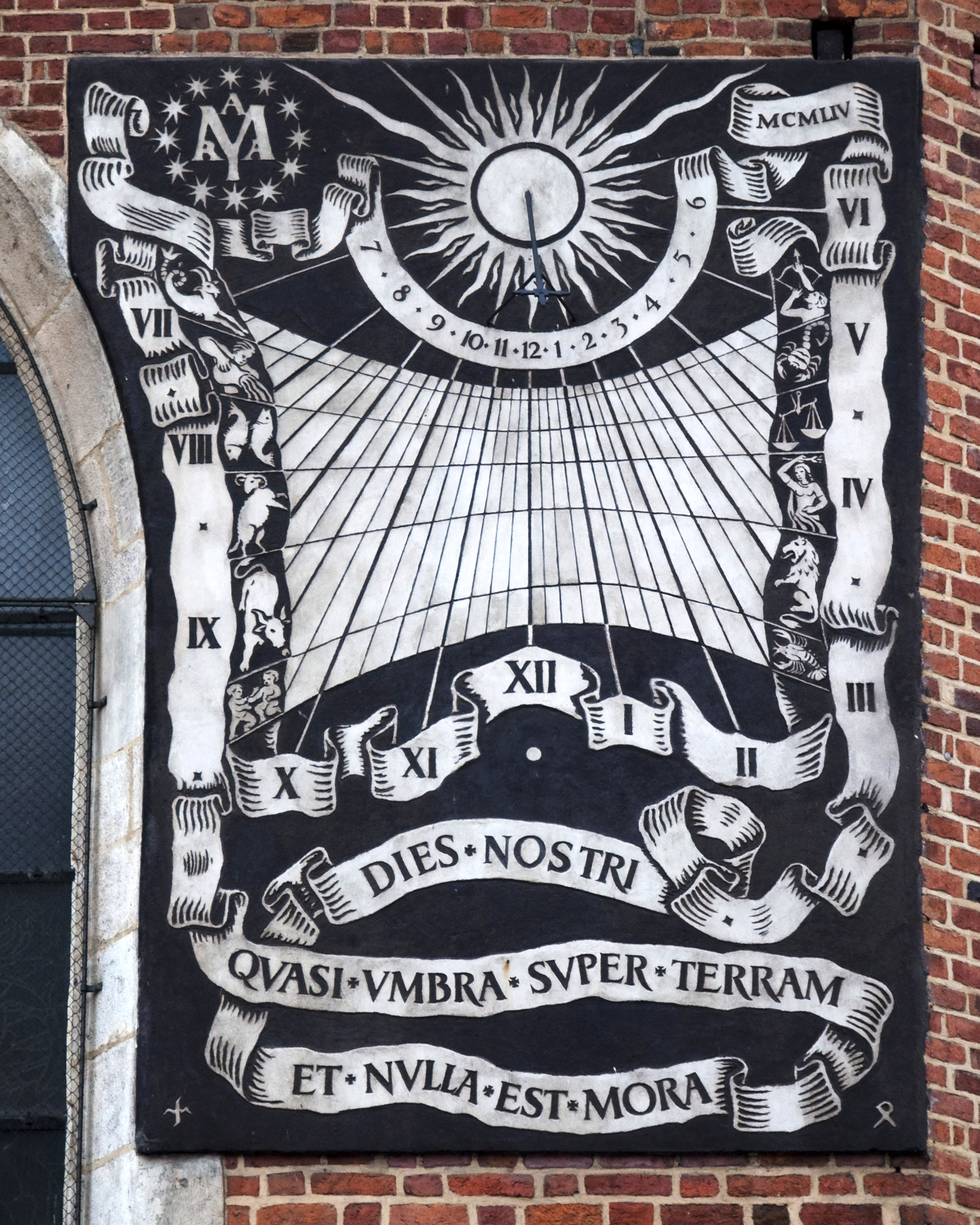 Sundial of St. Mary's Basilica, Kraków